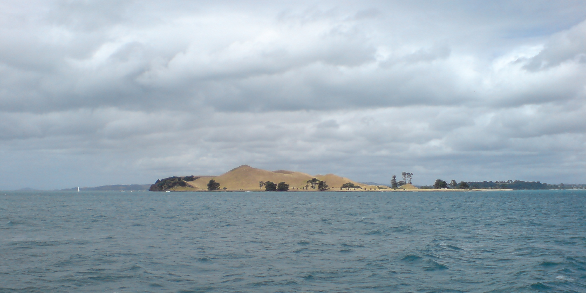 Browns Island in the Hauraki Gulf, New Zealand. Taken from the ferry to Motuihe Island.